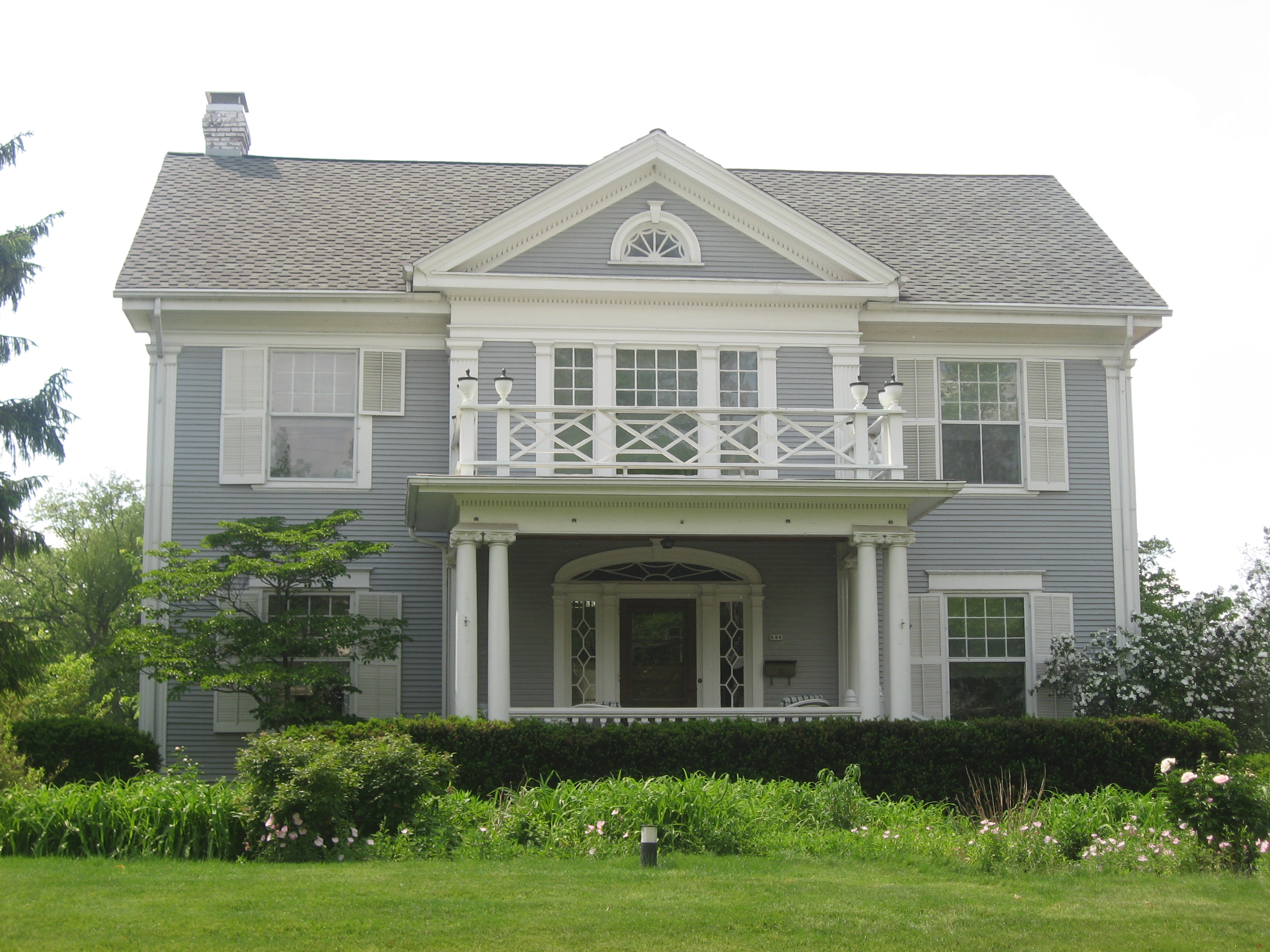 Front of the McNamee-Ford House, located at 536 N. Wabash Street (State Road 13) in Wabash, Indiana, United States. Built in 1901, it is listed on the National Register of Historic Places, and it is part of a Register-listed historic district, the North Wabash Historic District.